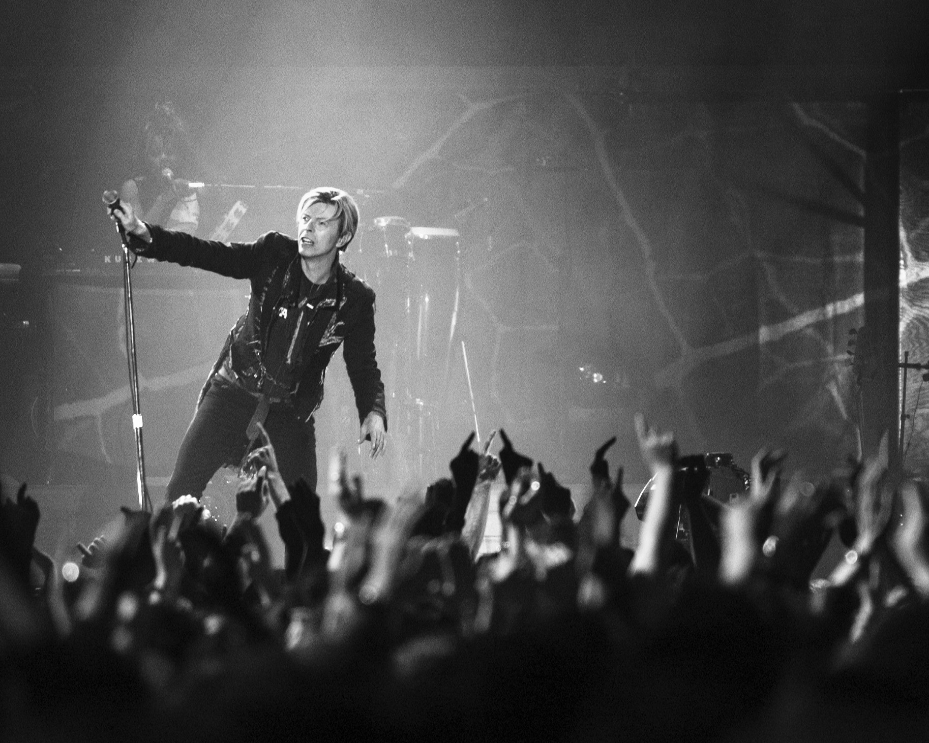 500px provided description: David Bowie [#show ,#rock ,#concert ,#music ,#live ,#guitar ,#performance ,#stage ,#gig ,#band ,#musician ,#singer ,#live music ,#bowie ,#David Bowie ,#Roger Woolman]